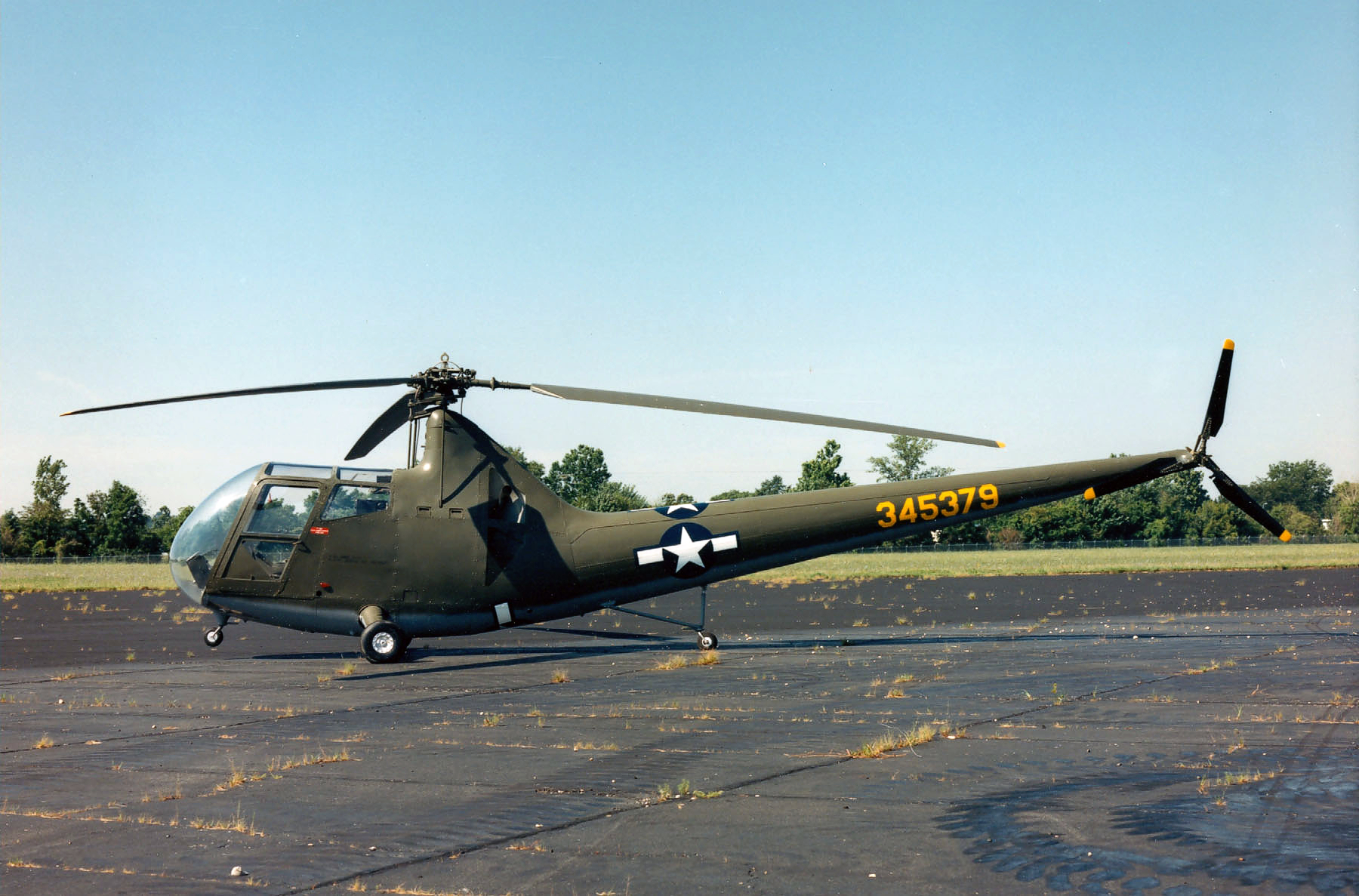 Sikorsky R-6A Hoverfly II helicopter at the USAF Museum.